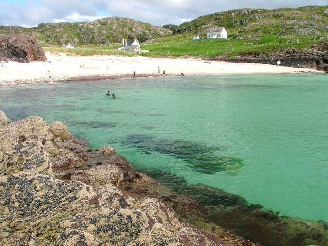 Clachtoll Bay, Low Tide.